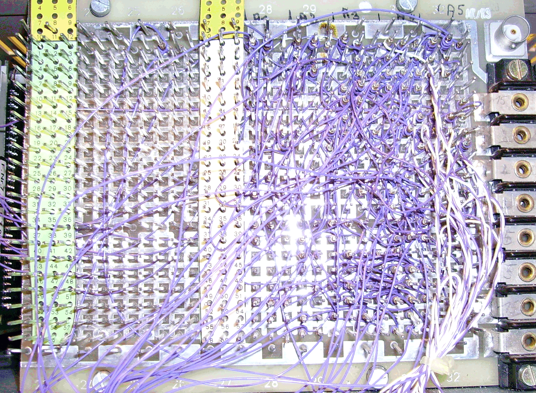 Picture of a wire wrapped backplane